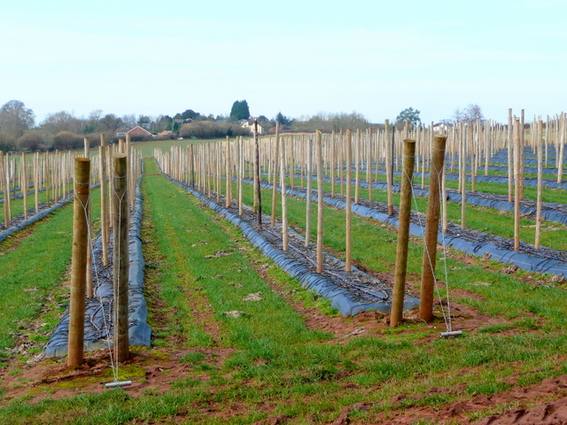 New raspberry plantation. Looking west along the rows, from Conigree Lane. This is probably an "autumn" (August to October) fruiting crop as the canes are still below ground. As they grow in the spring and summer, they are held in place by wires attached to the end-posts seen here. The crop is irrigated and plastic mulched to keep out weed competition.